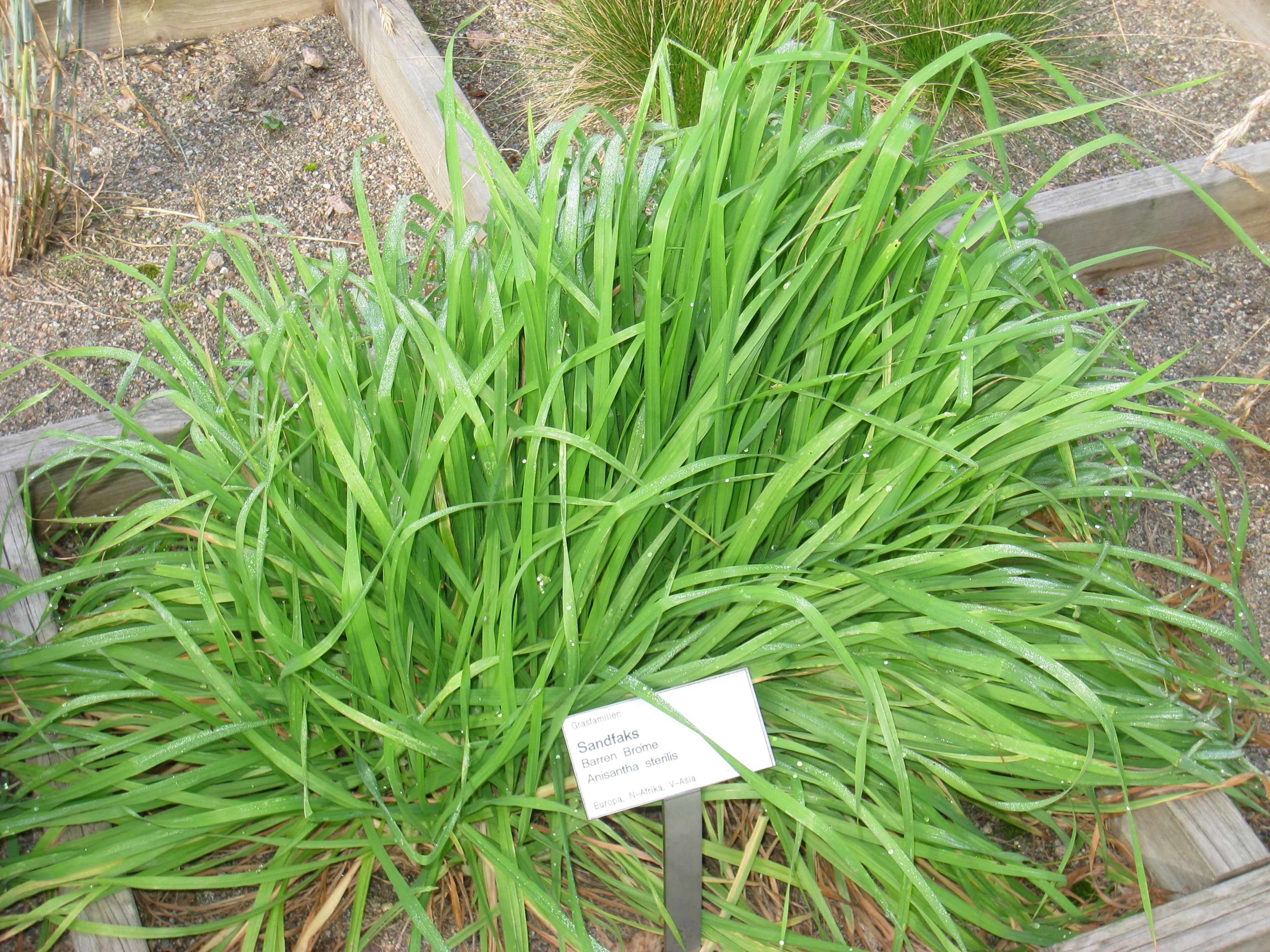 Anisantha sterilis - Oslo botanical garden, Oslo, Norway.